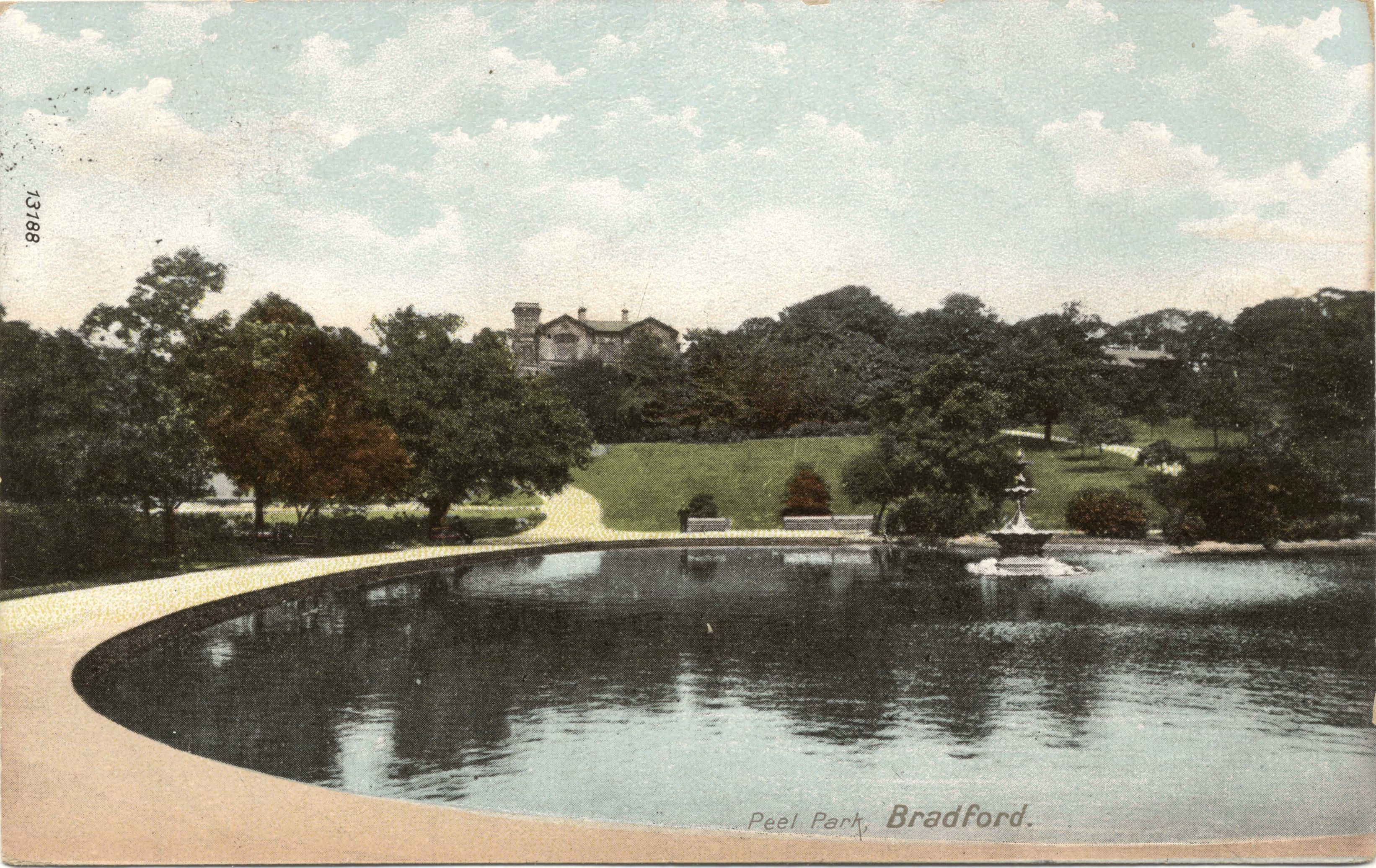 Tinted postcard of Peel Park, Bradford. This card has a divided back and is postmarked 1905.